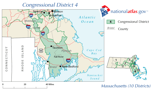 Fourth U.S. Congressional district of Massachusetts in the 109th Congress. Redistricting actually occurred for the 108th and subsequent Congresses after the United States 2000 Census.